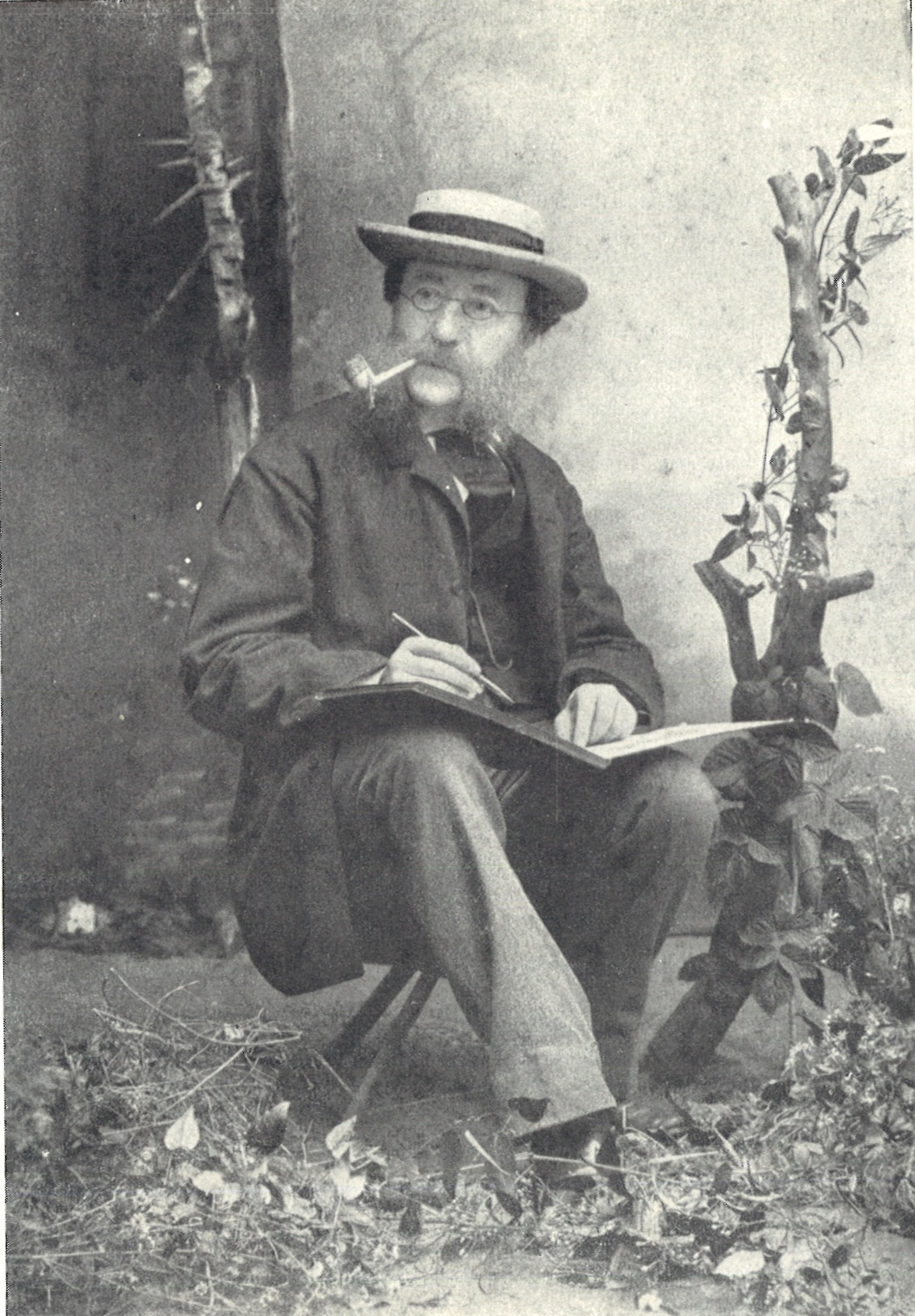 Kaspar Kars(s)en (1810-1896)